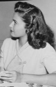 Photo of Marshall Reed and Donna Martell from the television program The Lineup.